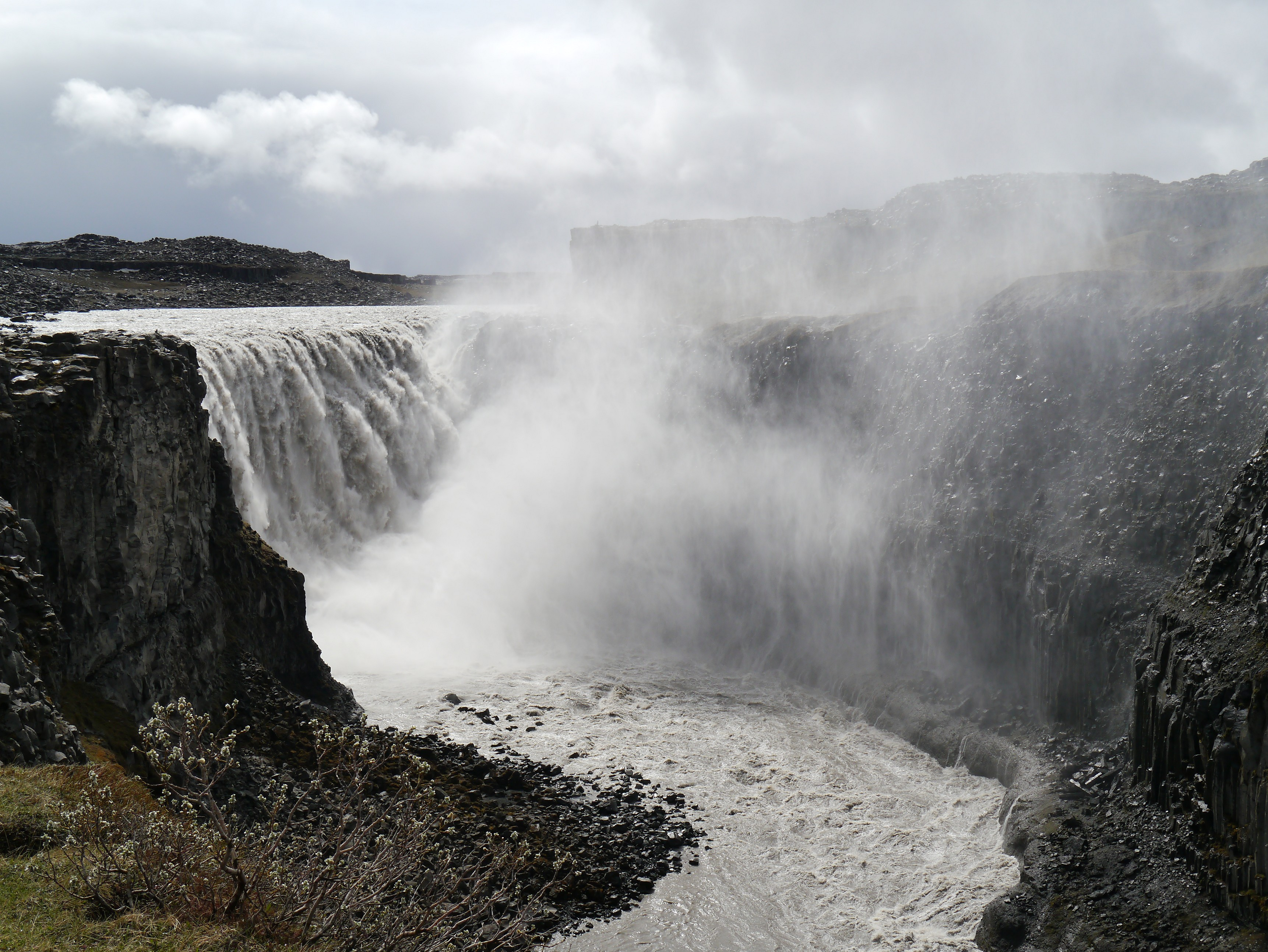 the Dettifoss, Northeast Iceland